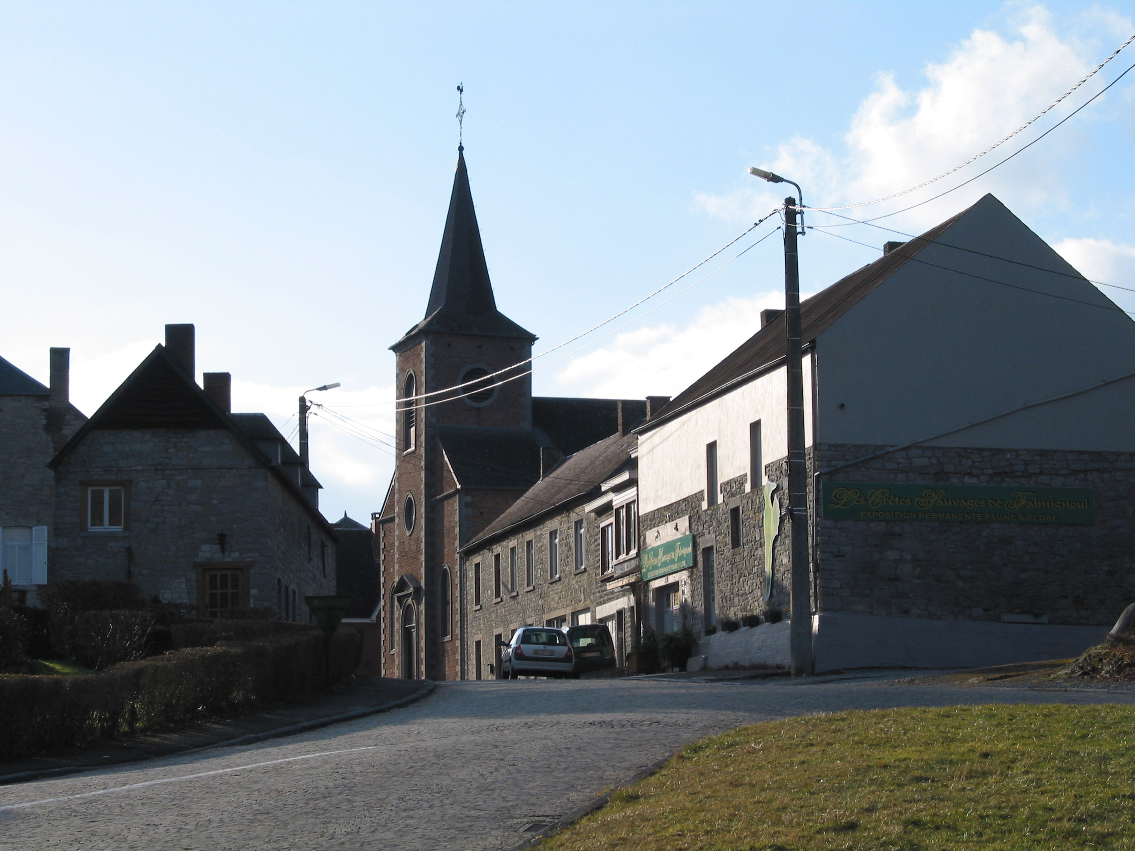 Falmignoul (Belgium), the Sint Nicolas’ Church (1841-1842).